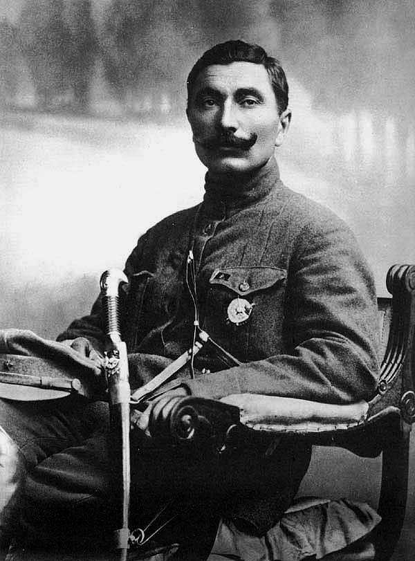 soviet general Semen Budennyj